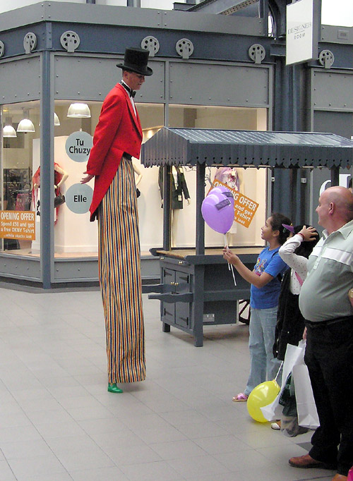 A stilt-walker entertains shoppers at Swindon Outlet Centre, a discount shopping centre in Swindon, Wiltshire, England. Taken by Adrian Pingstone in July 2004 and released to the public domain.